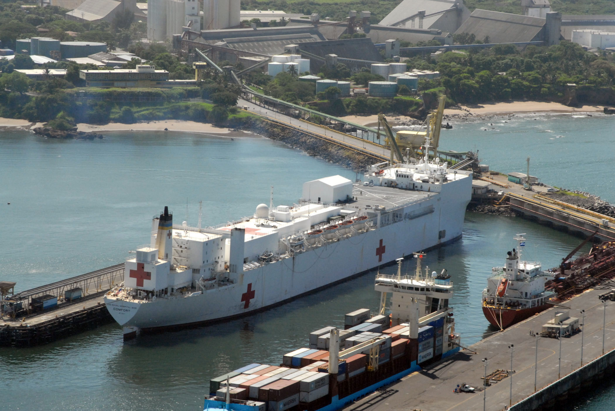 ACAJUTLA, El Salvador (July 30, 2007) - Hospital ship USNS Comfort (T-AH 20) is moored in Acajutla, El Salvador, during a scheduled port visit. Comfort is on a four-month humanitarian deployment to Latin America and the Caribbean providing medical treatment to patients in a dozen countries. U.S. Navy photo by Mass Communication Specialist 2nd Class Joshua Karsten (RELEASED)